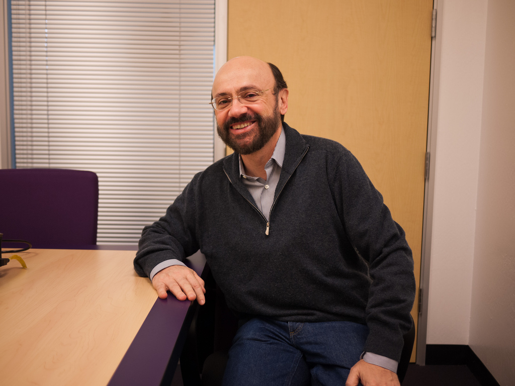 Chief Scientist of Yahoo! and the man who lead the team that implemented the first CAPTCHA at AltaVista in 1997.